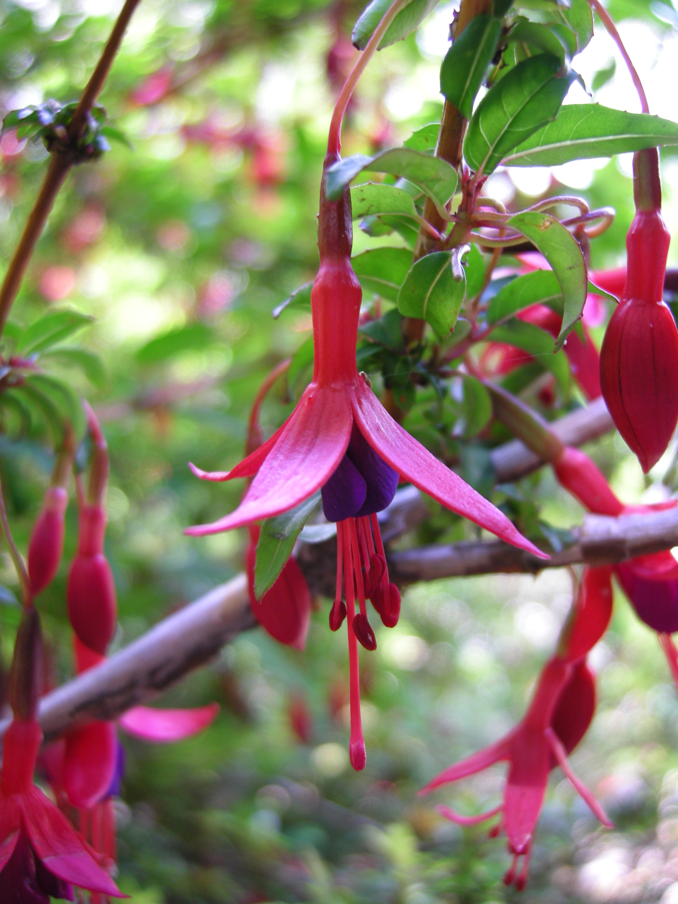 Flower of Fuchsia magellanica. Picture taken in Los Alerces National Park (Chubut province, Argentina).